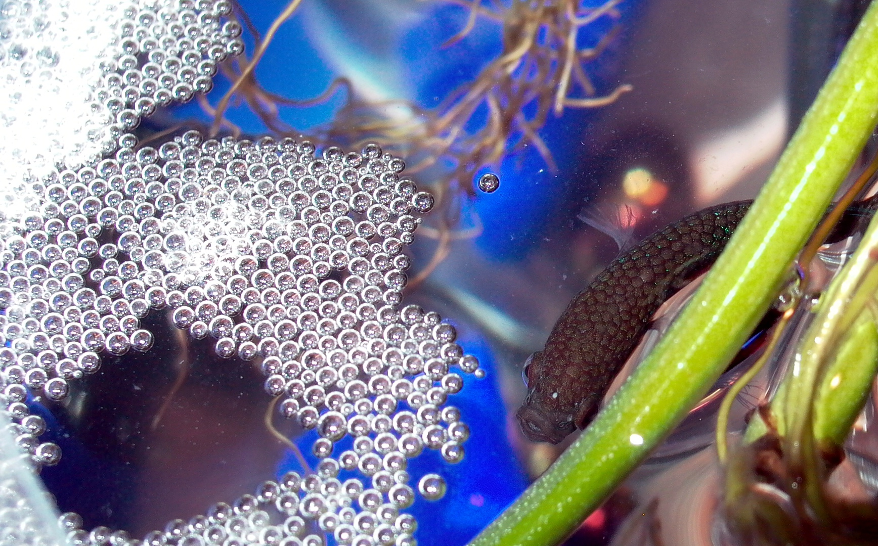 B. splendens with his bubble nest